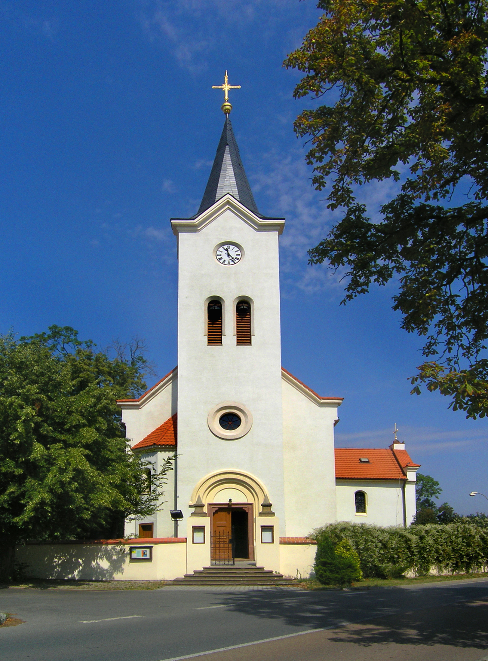 Svatý Prokop church in Čestlice. Czech Republic